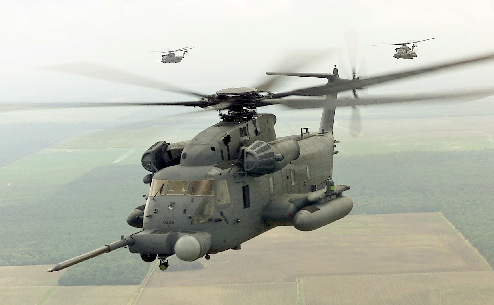 An MH-53J of the 20th Special Operations Squadron, Hurlburt Field, Fl., flies over the local area.